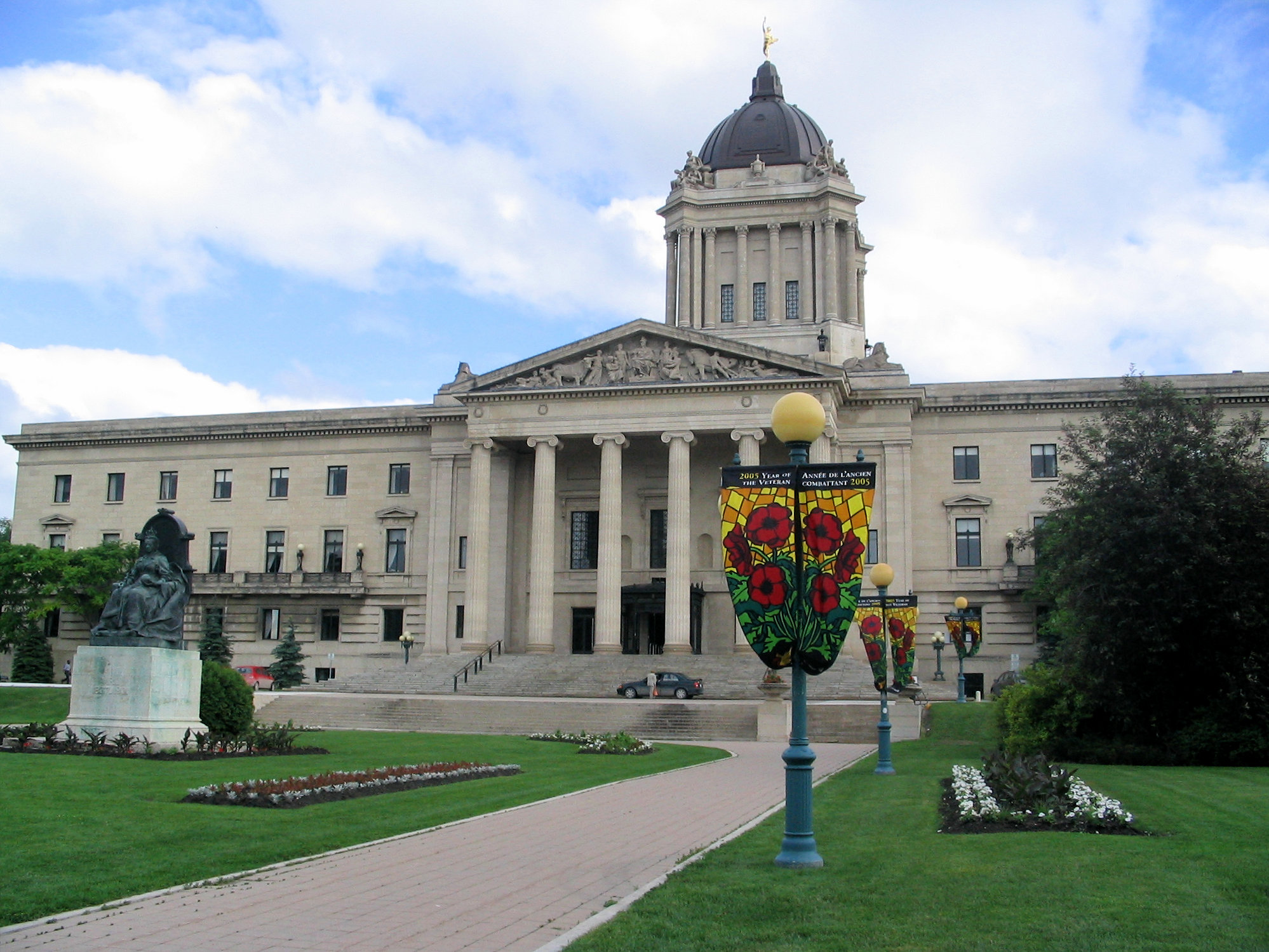 A photo of the in , taken by Canucks4ever83 in June 2006.